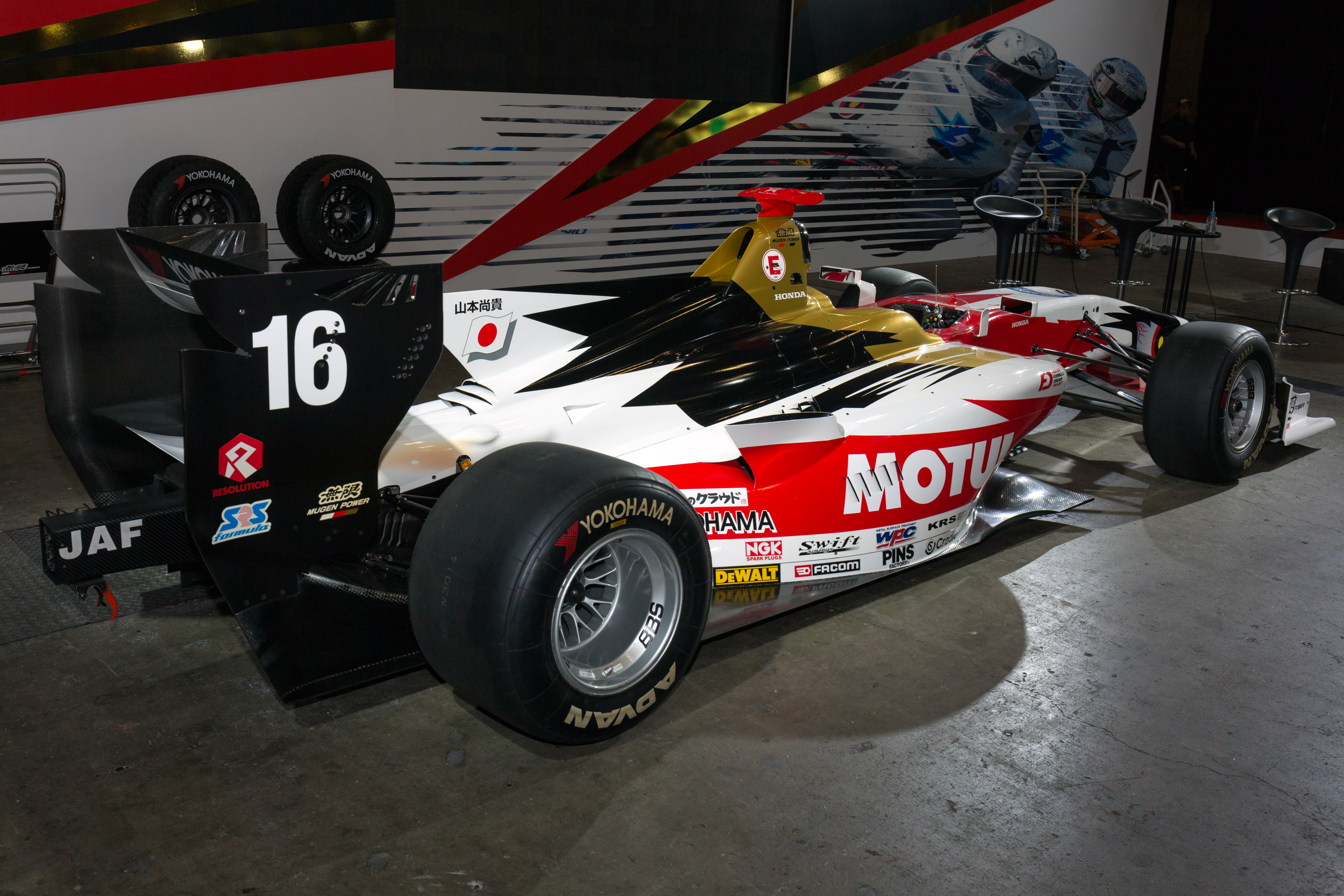 Tokyo Auto Salon 2017: Dallara SF14 of Mugen